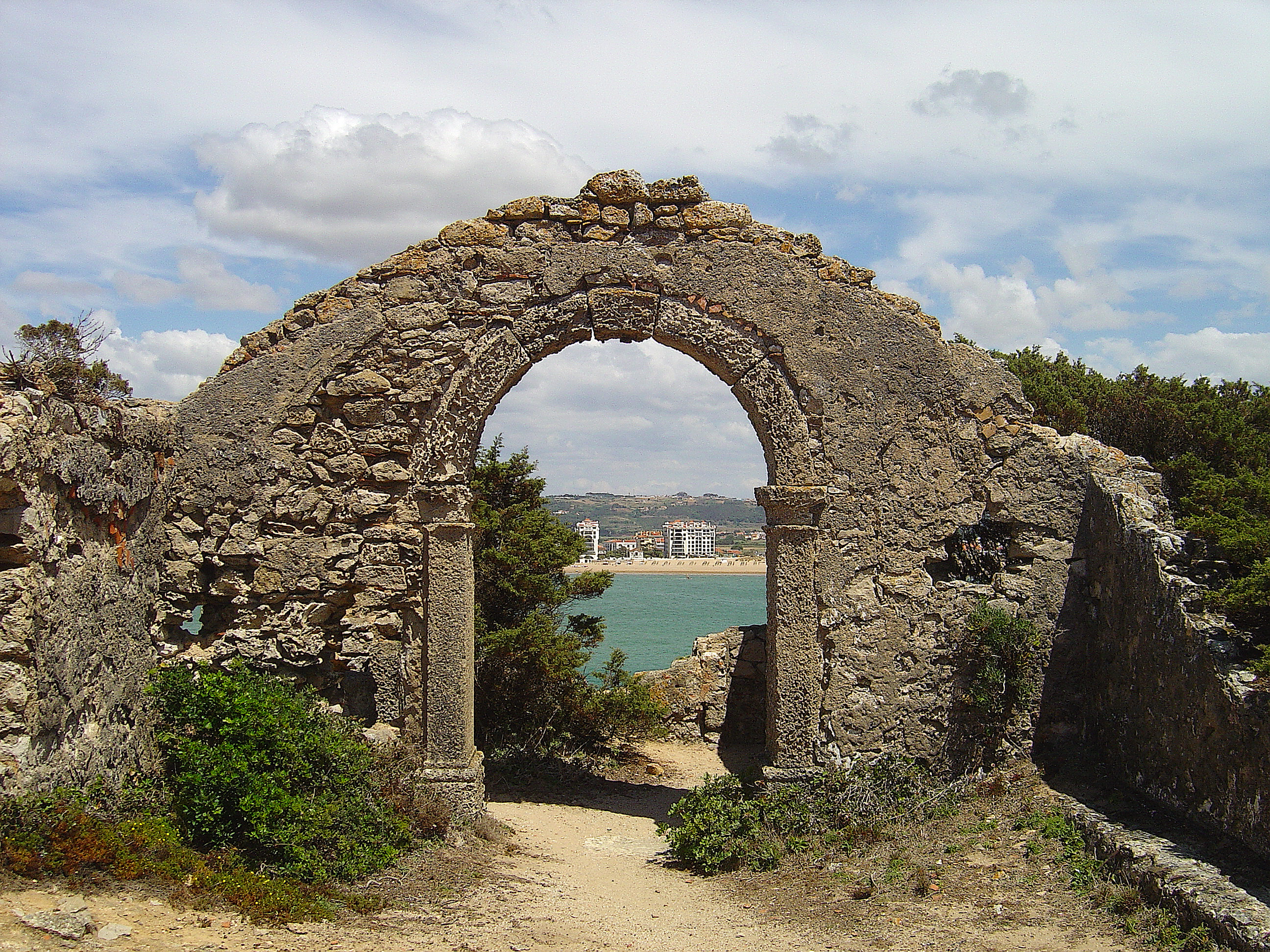 See where this picture was taken. [?]